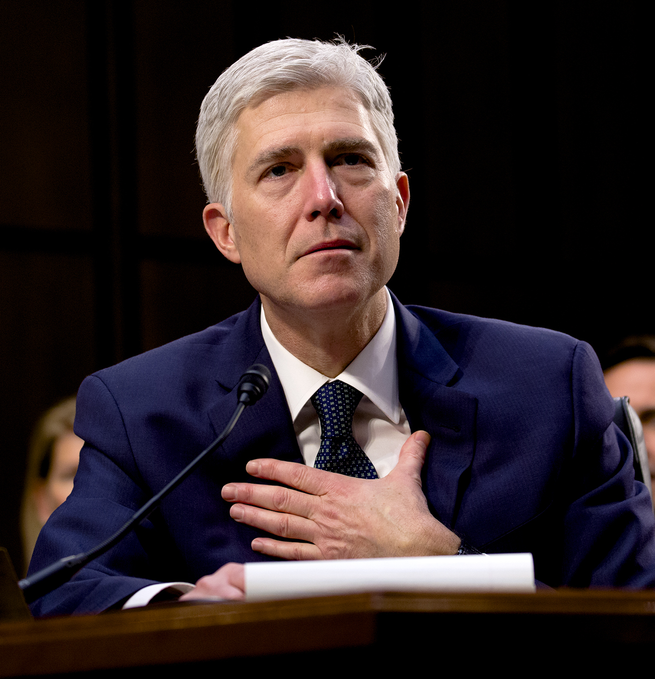 Neil Gorsuch Supreme Court nomination